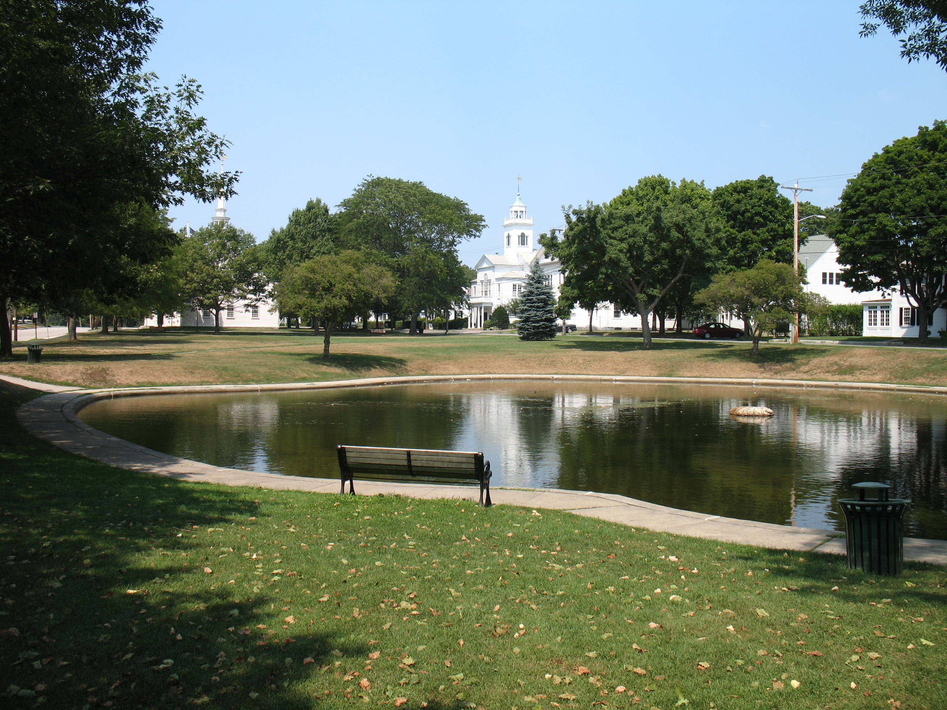 Cohasset, Massachusetts town common; duck pond in foreground; First Parish church left background, Second Congregational church center background